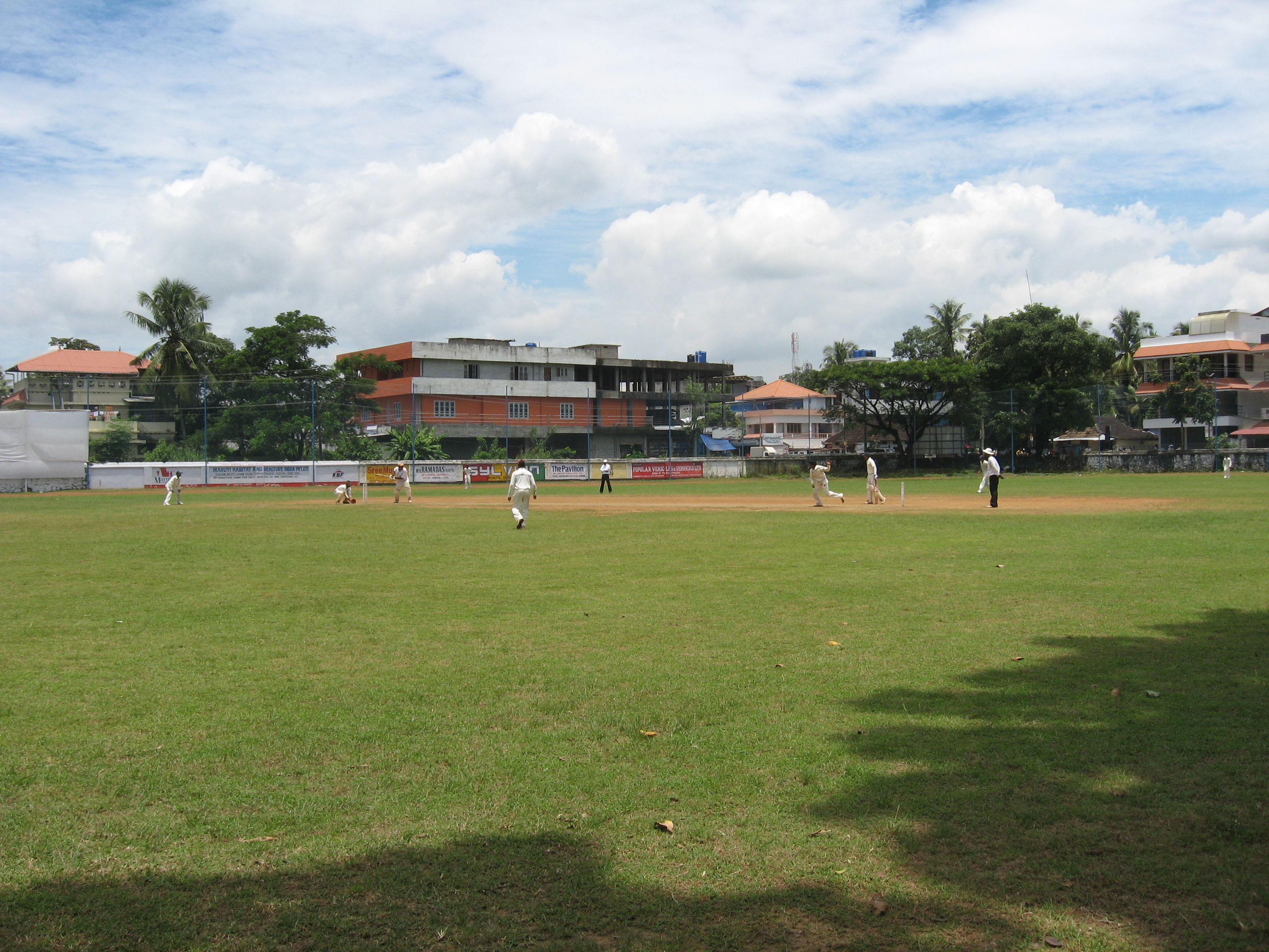 Pooja_Cricket_Tournament